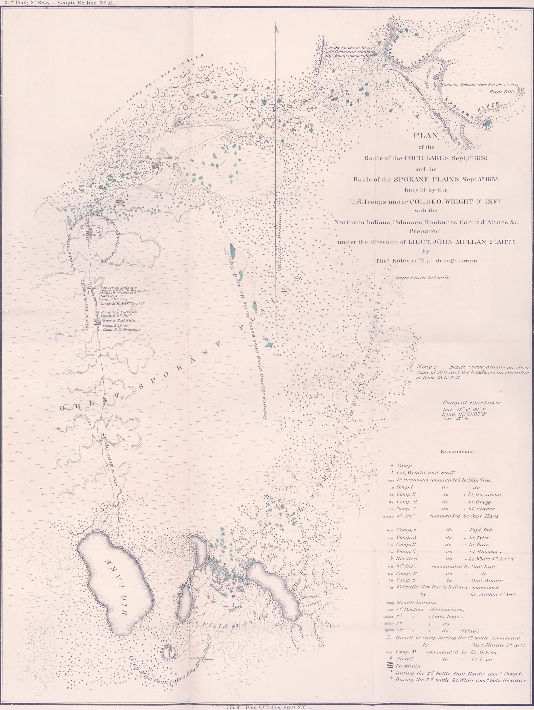 A map showing U.S. Army and enemy movements and engagements during the Battle of Four Lakes and the Battle of Spokane Plains during the Coeur d'Alene War of 1858. Drawn by 1st Lt. John Mullan, USA.